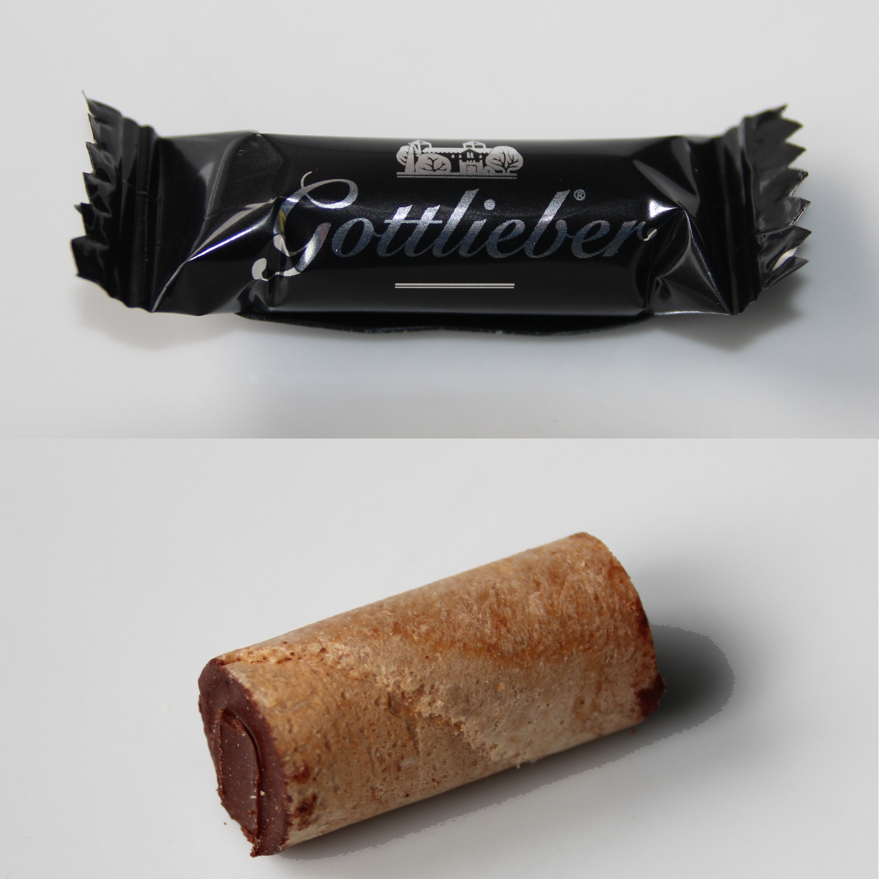 filled rolled waffles of Gottlieben (Switzerland): so-called "Hüppen"